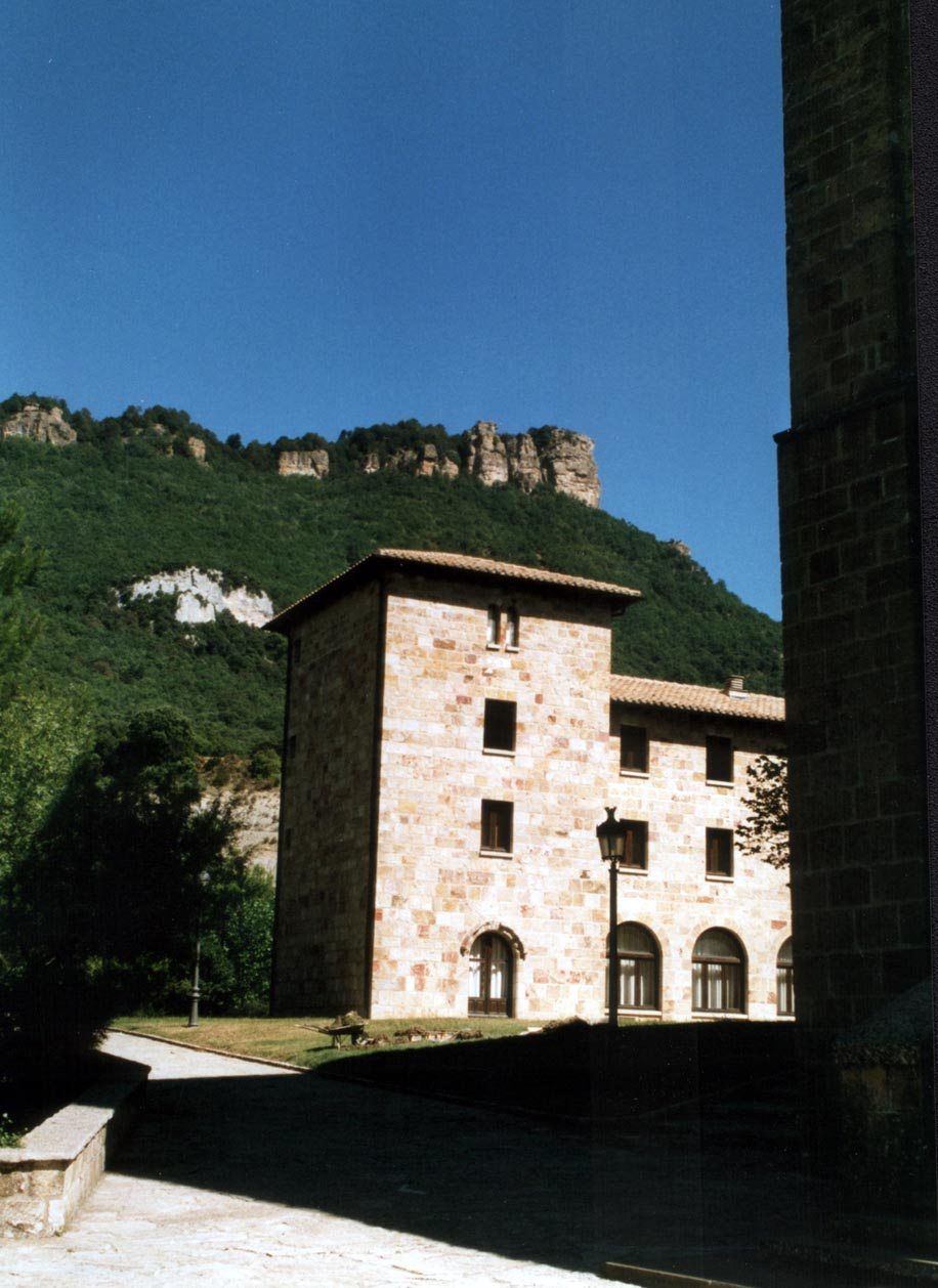 Monastery of Leyre